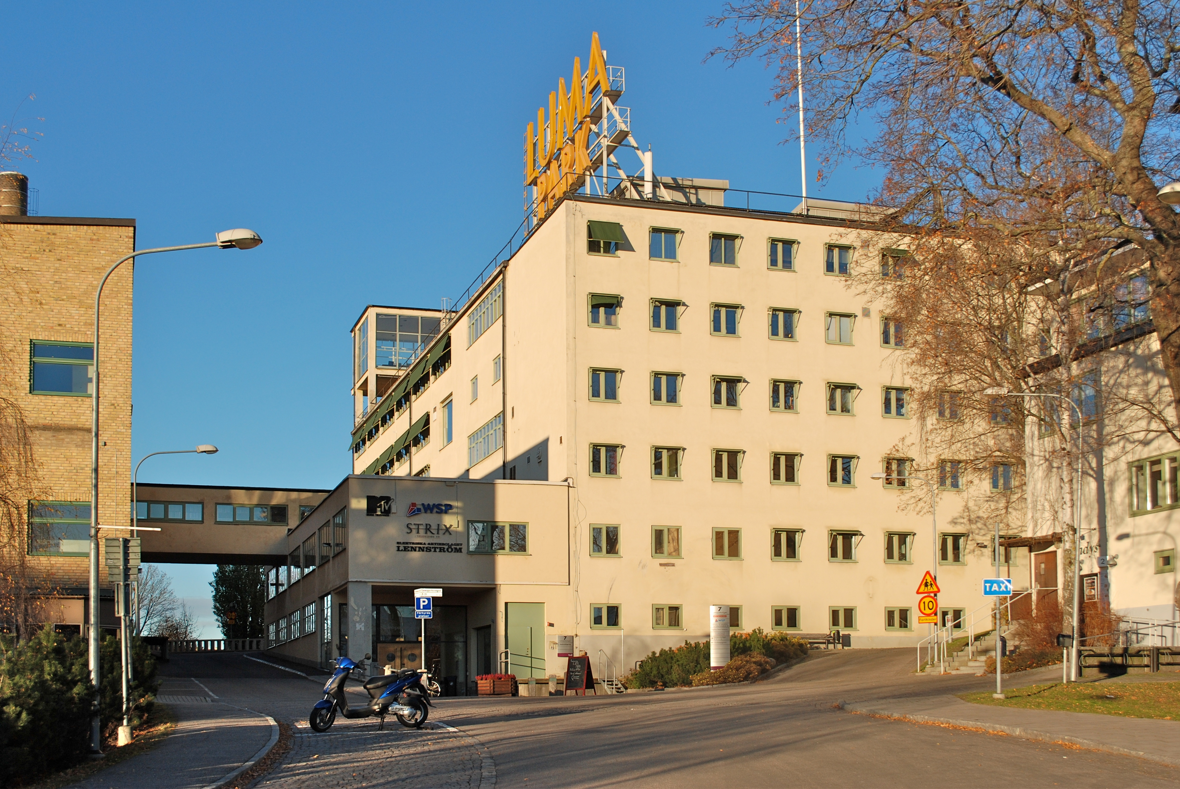 Lumafabriken (The Luma factory) built 1926-30.